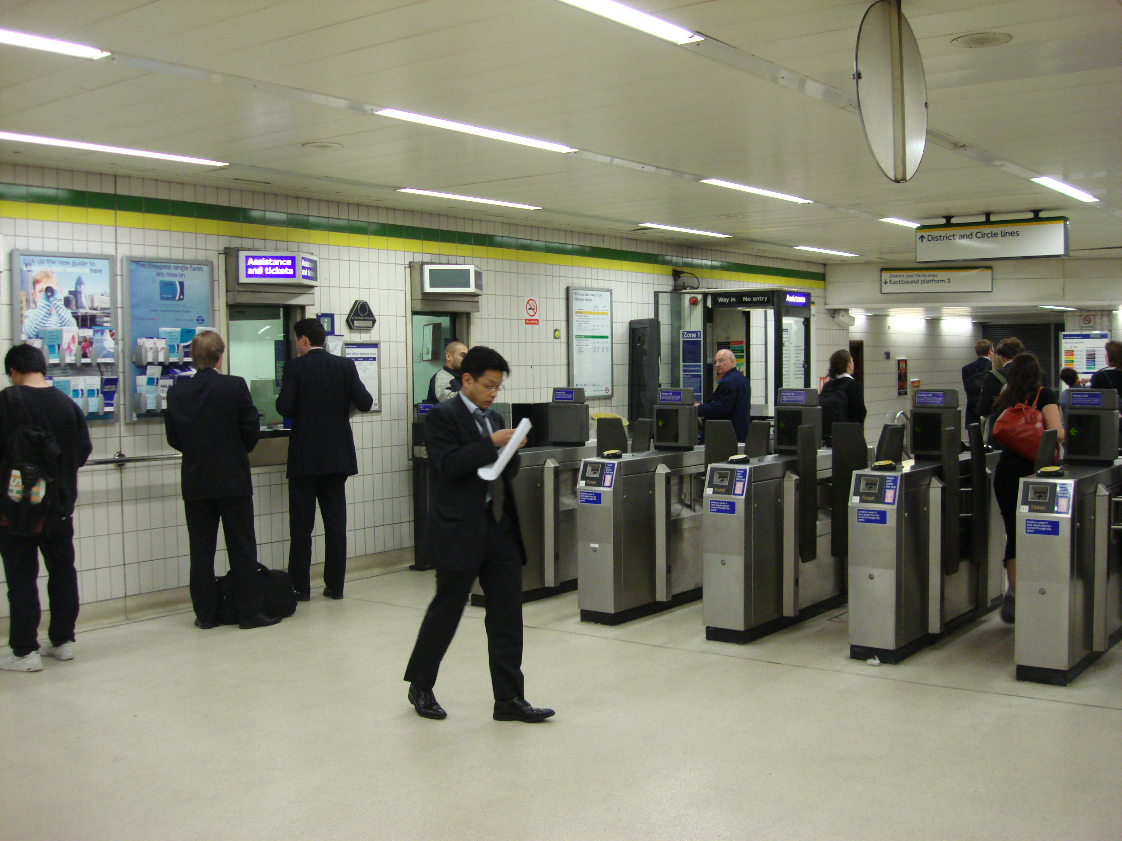 The ticket hall at Mansion House tube station